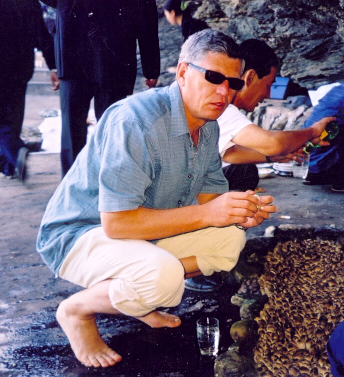 Russian editor V.Sungorkin License on Flickr: CC-BY-2.0 Flickr tags: journalist, vacation